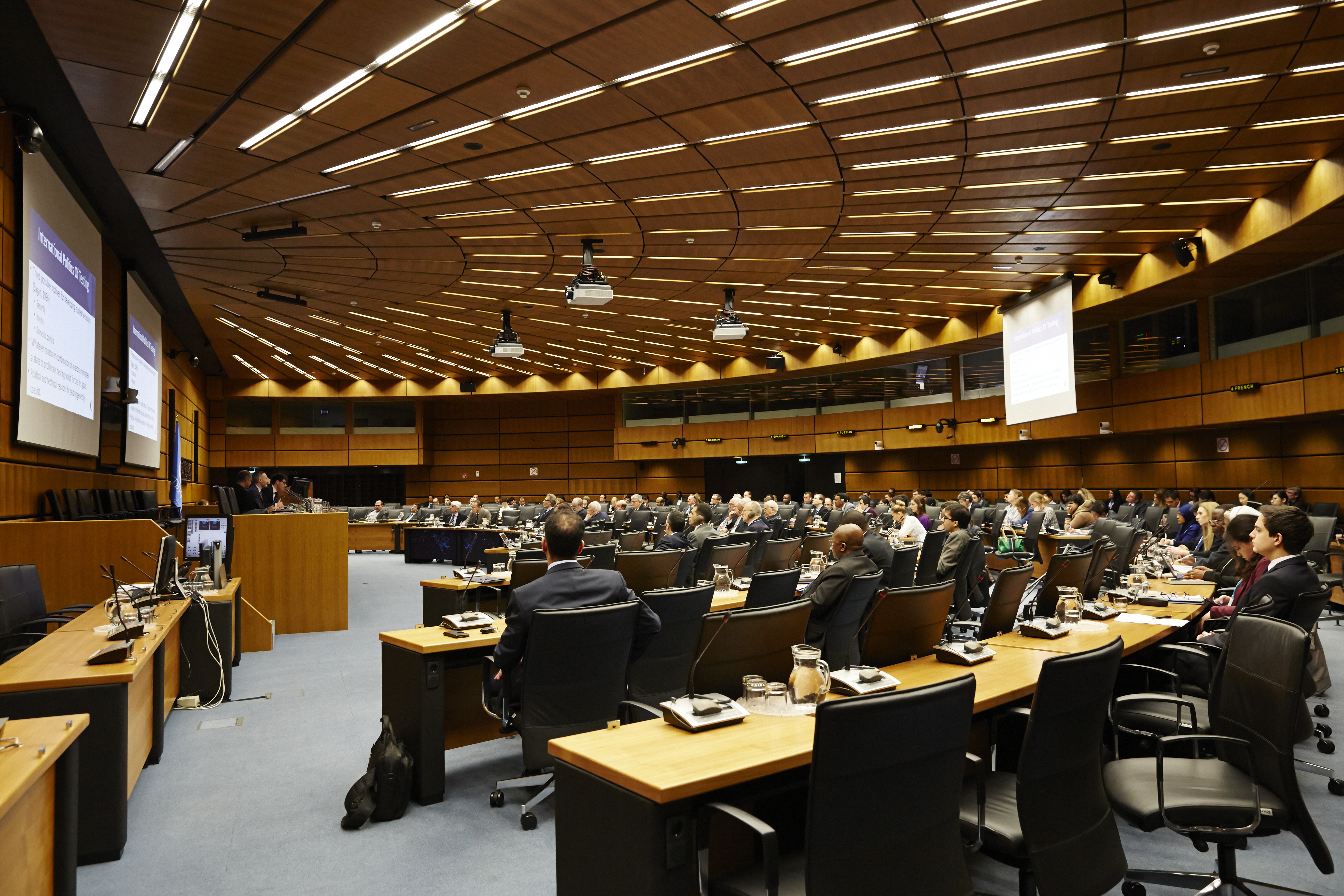 Session: Nuclear Testing and the Arms Race